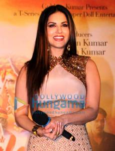 Sunny Leone promotes her film Ek Paheli Leela at Korum Mall in Mumbai.